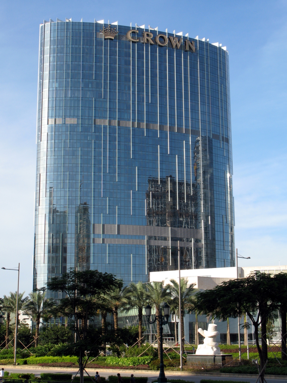 Crown Towers 皇冠度假酒店